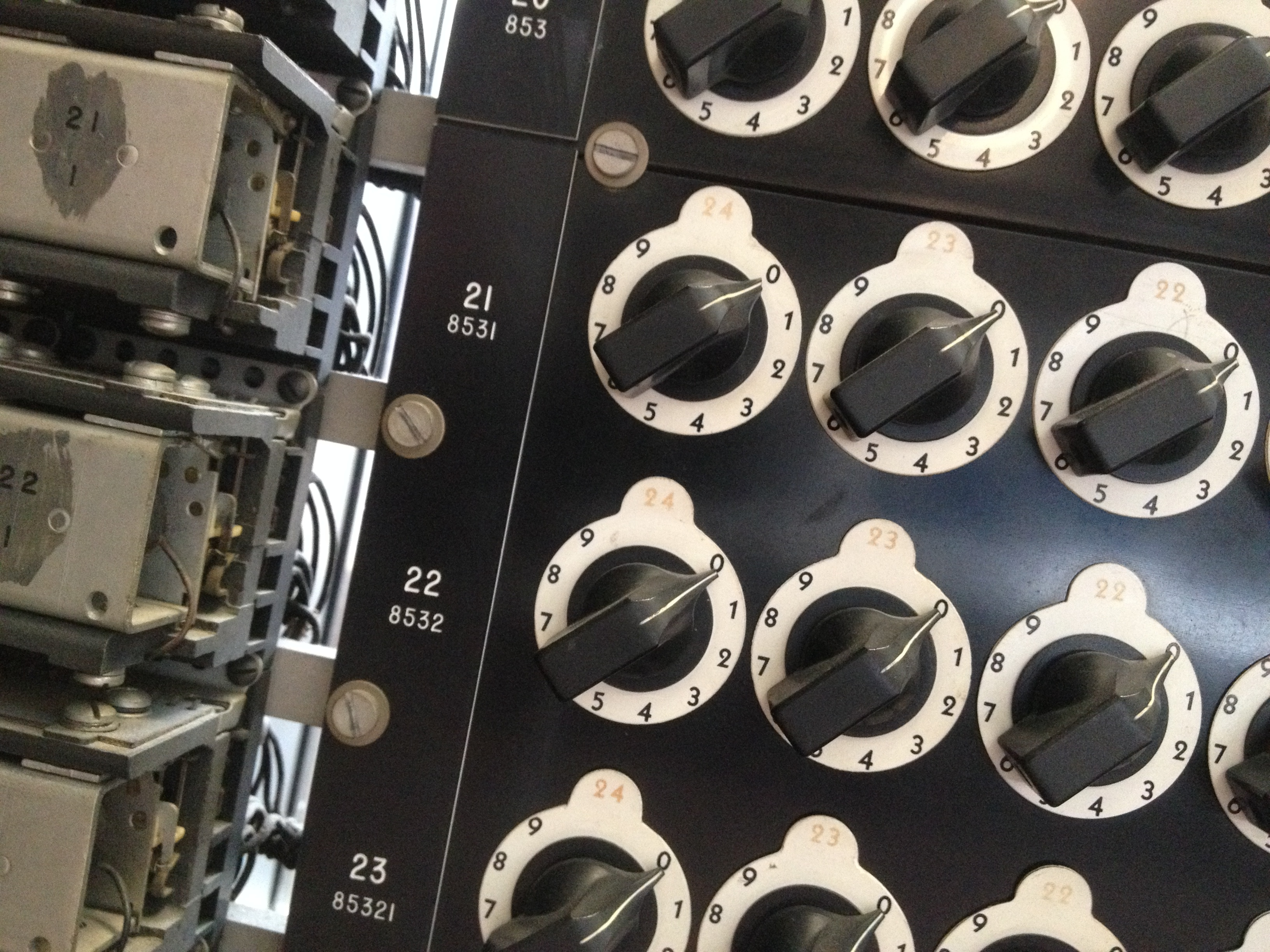 Close up detail of the bank of switches on the Harvard Mark I. These switches were used prior to a computing run to enter 24-digit decimal numbers that were then used as constants by the program.